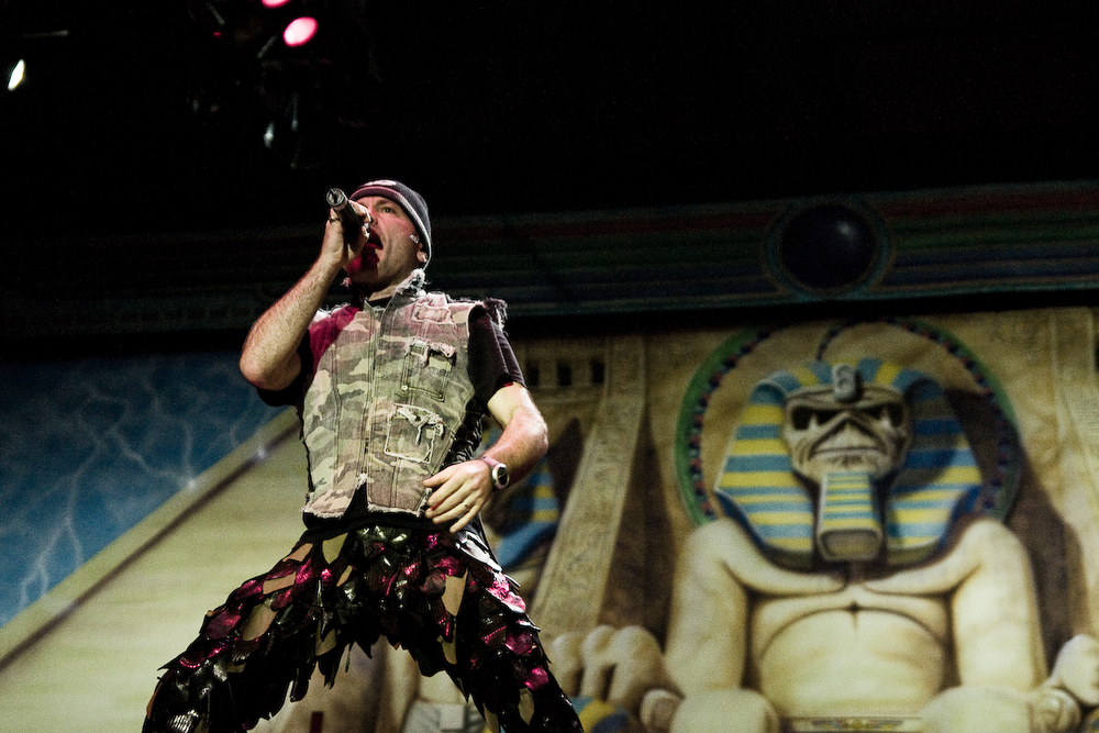 Bruce Dickinson at the concert